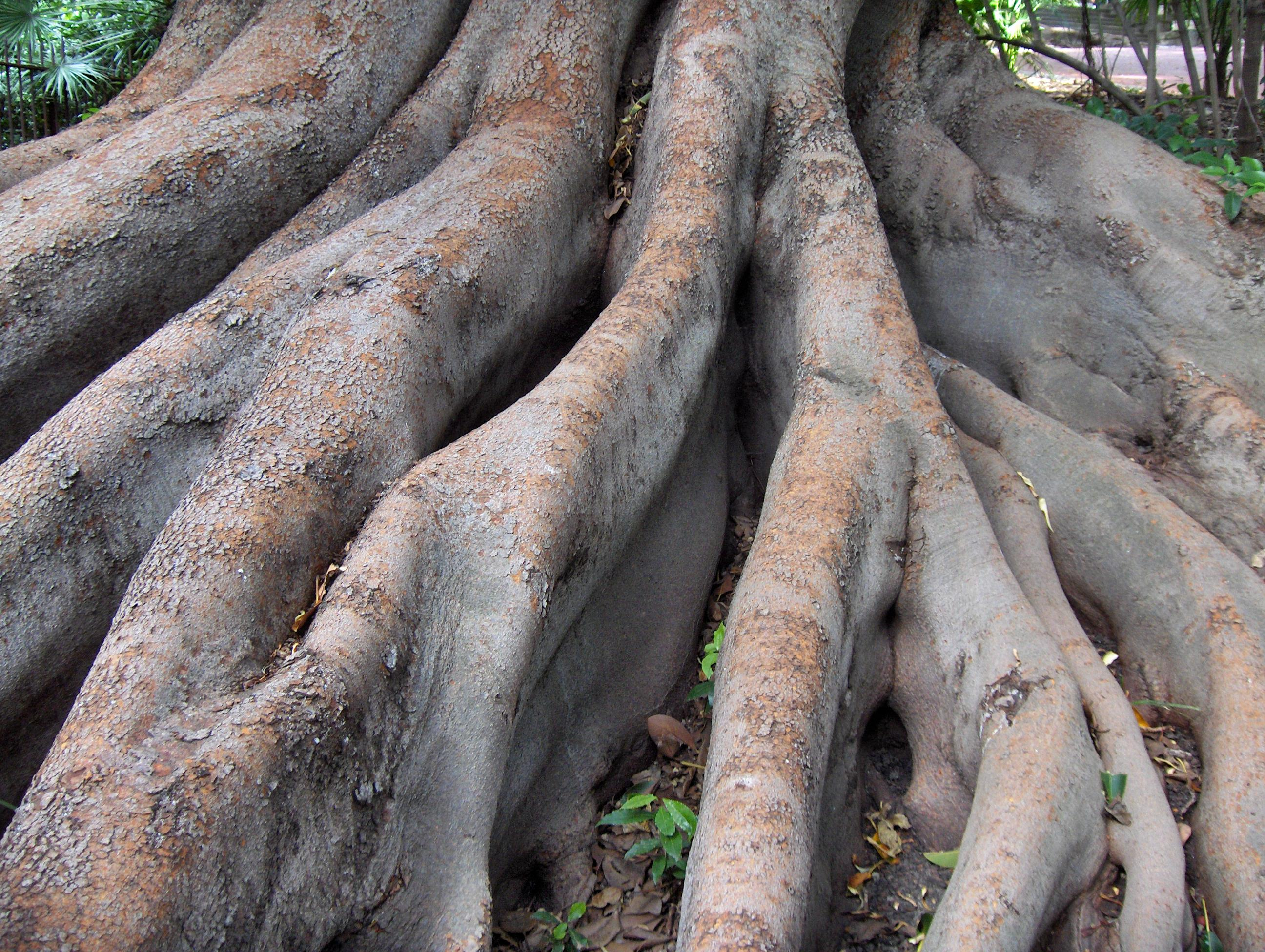 Roots of Ficus macrophylla, botanical garden, Sanremo, Italy